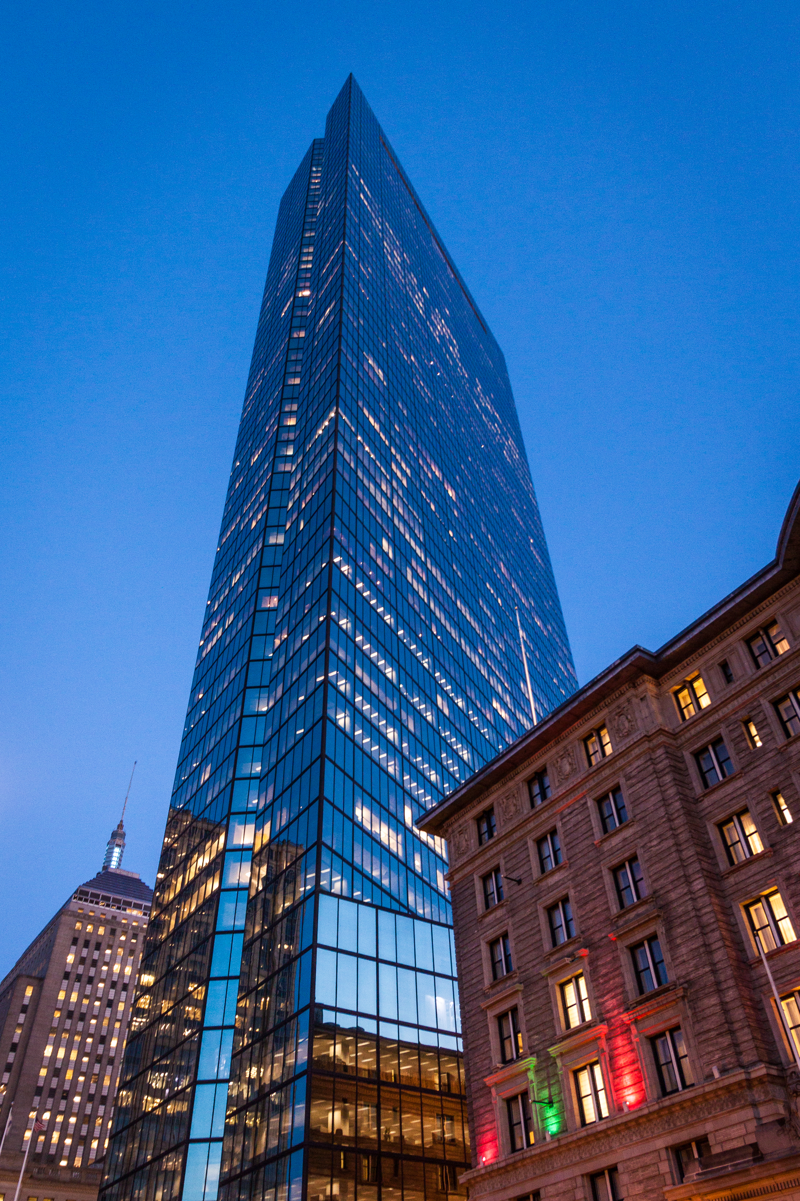 Taken Jan 8, 2013 in Boston, Massachusetts, United States ⅙ sec at f/4.5, ISO400. Lens: EF-S10-22mm f/3.5-4.5 USM @ 14 mm